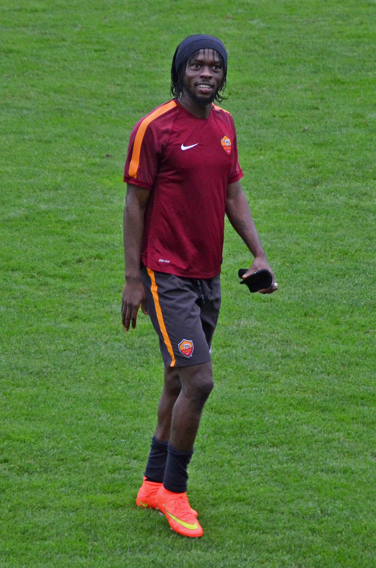 Ivorian footballer Gervinho (AS Roma), Bad Waltersdorf (Austria), 12 August 2014.